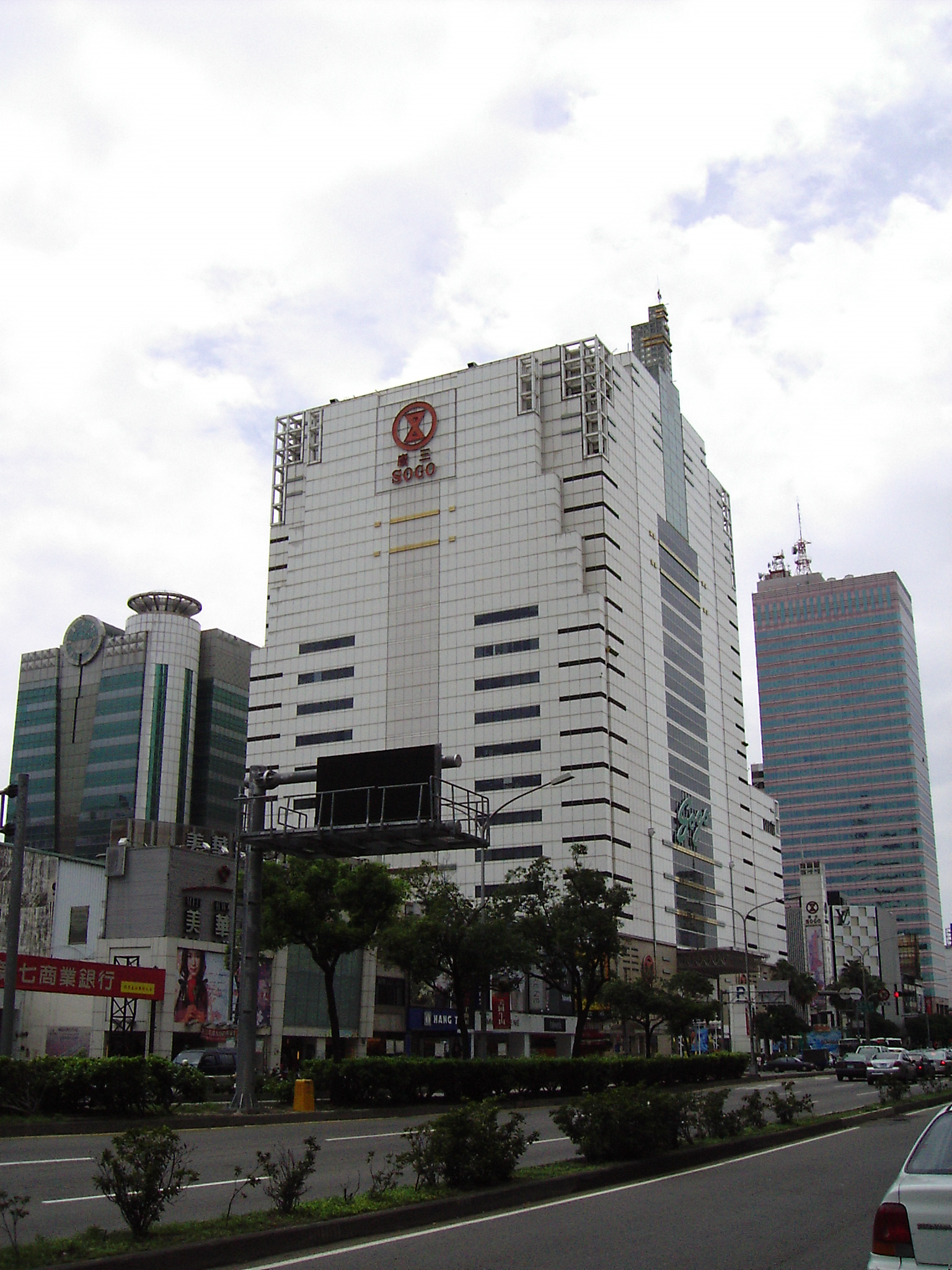 Sogo in Taichung.